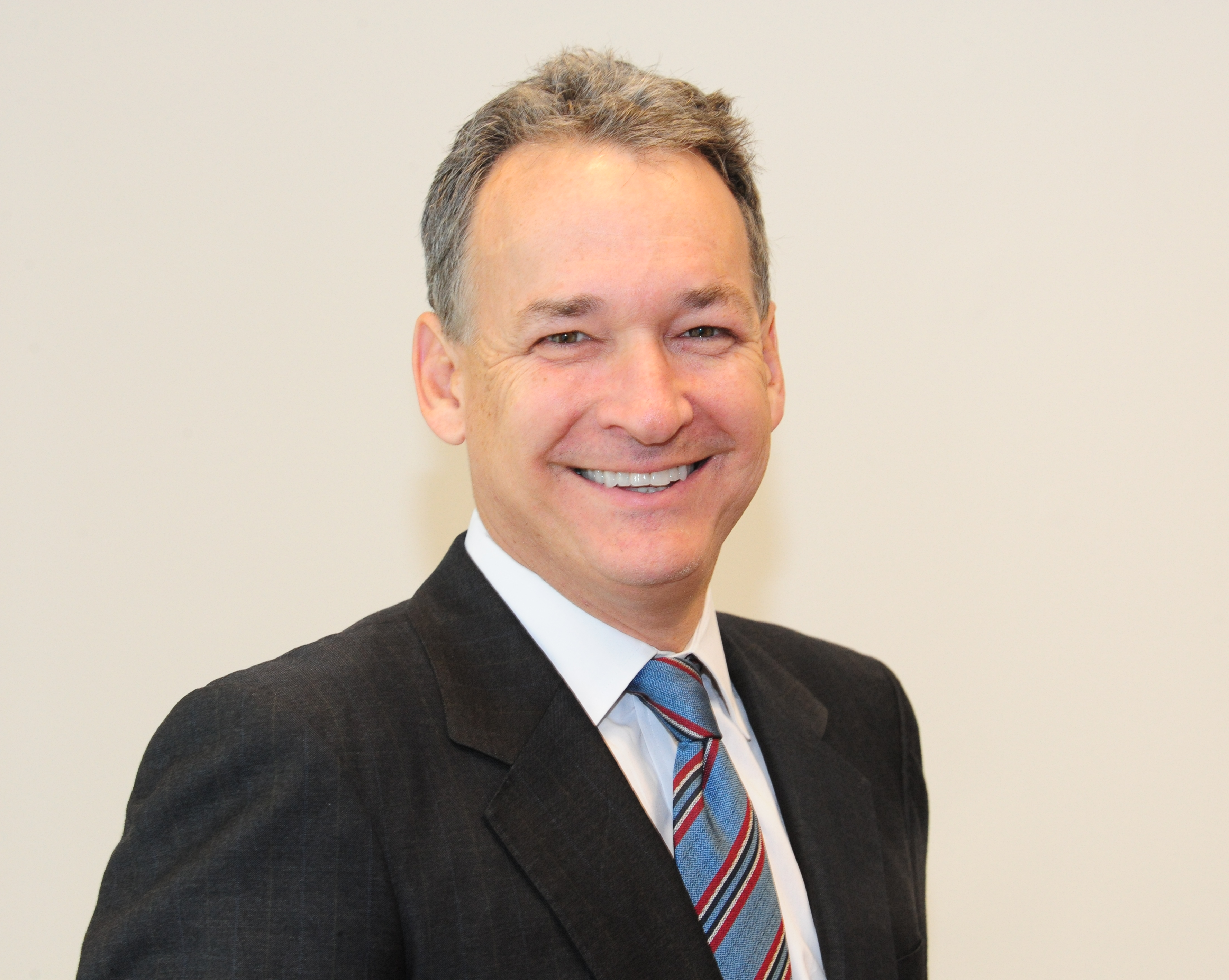 H Crosby headshot